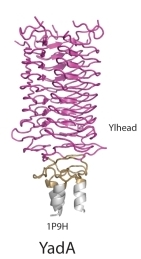 trimeric autotransporter adhesin